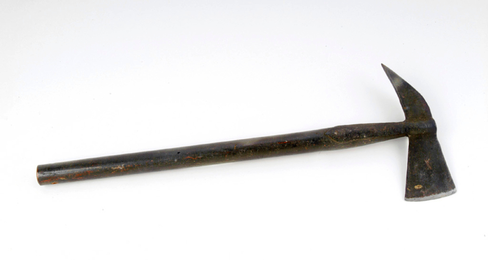 DESCRIPTION Physical Description Forged steel blade on wooden handle. General History The compact boarding axe was an effective weapon in close combat. While an effective in hand-to-hand combat, it was more effective as a tool. The boarding axe was used to clear the decks of lines and broken timbers. It was invaluable at removing hot shot which caused devastating fires on board ships. The hook of the axe was used to drag debris across the decks and over the side. ASSOCIATED PLACE United Kingdom: Great Britain PHYSICAL DESCRIPTION iron (overall material) MEASUREMENTS overall: 8 1/2 in x 22 1/2 in x 1 1/2 in; 21.59 cm x 57.15 cm x 3.81 cm ID NUMBER 1980.0399.0323 COLLECTOR/DONOR NUMBER M-0016 ACCESSION NUMBER 1980.0399 CATALOG NUMBER 1980.0399.0323 CREDIT LINE Charles Bremner Hogg Jackson SUBJECT Naval History RELATED EVENT Revolution and the New Nation SEE MORE ITEMS IN Armed Forces History: Armed Forces History, Naval Military ThinkFinity EXHIBITION Price of Freedom EXHIBITION LOCATION National Museum of American History DATA SOURCE National Museum of American History